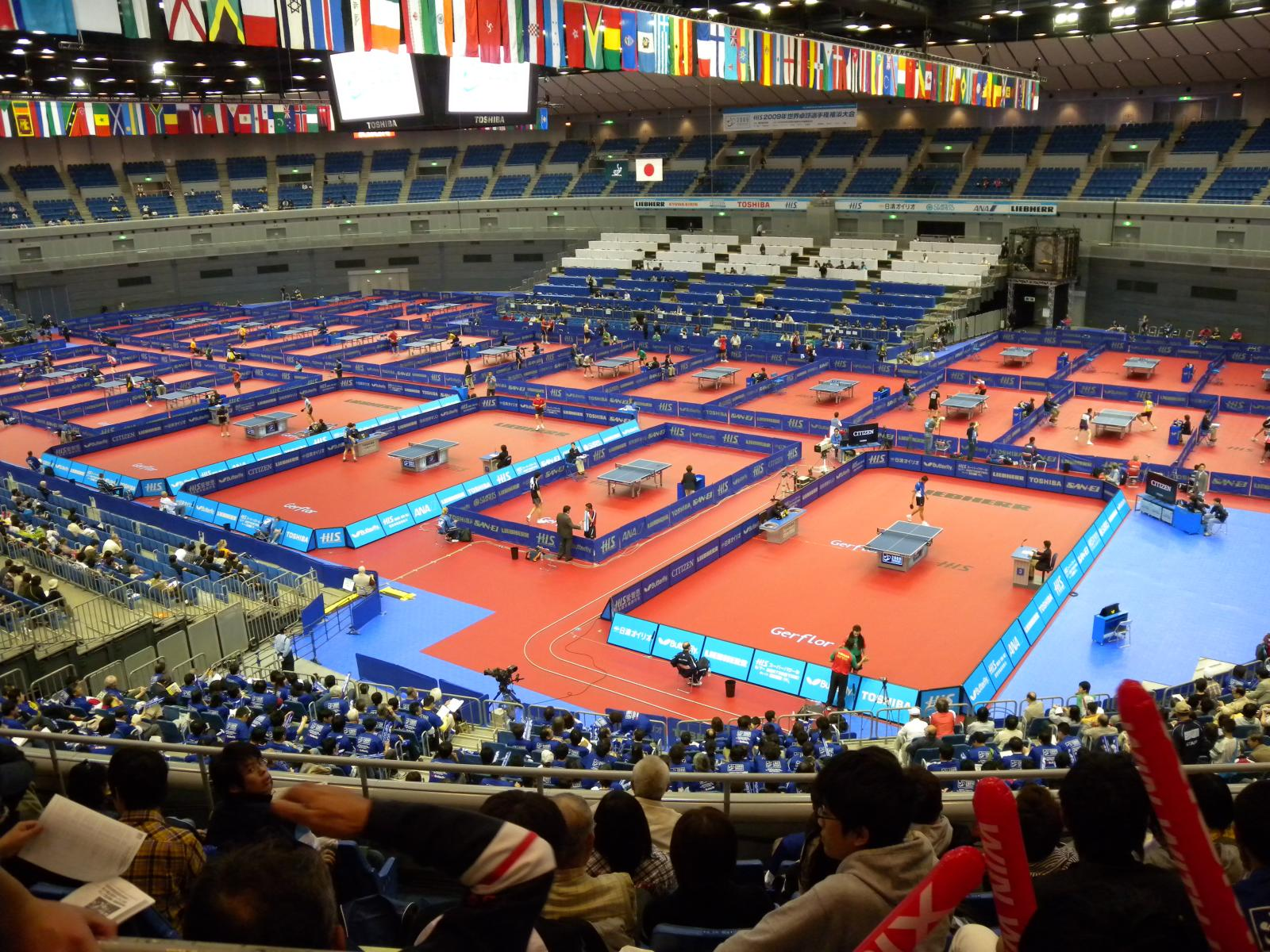 2009 World Table Tennis Championships, Yokohama arena 2009.4.28～5.5